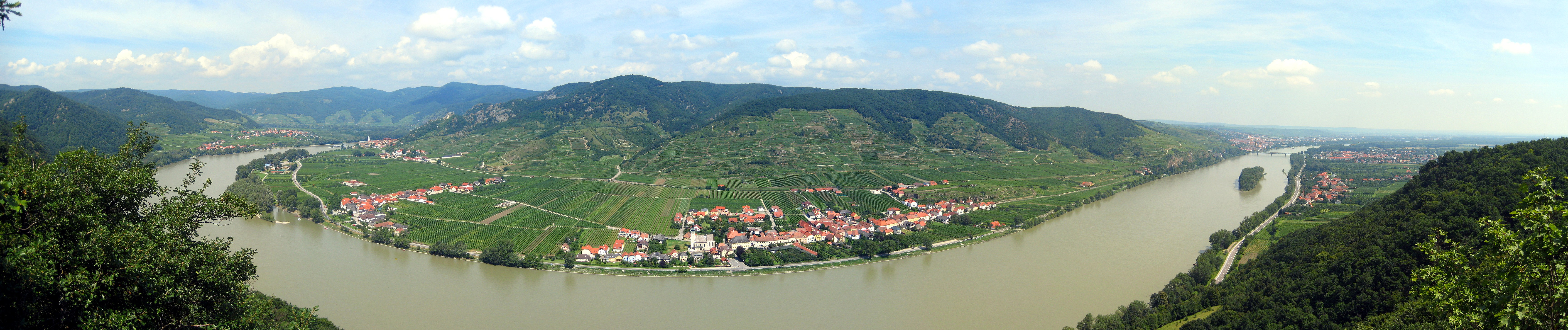 Danube in the Wachau Valley